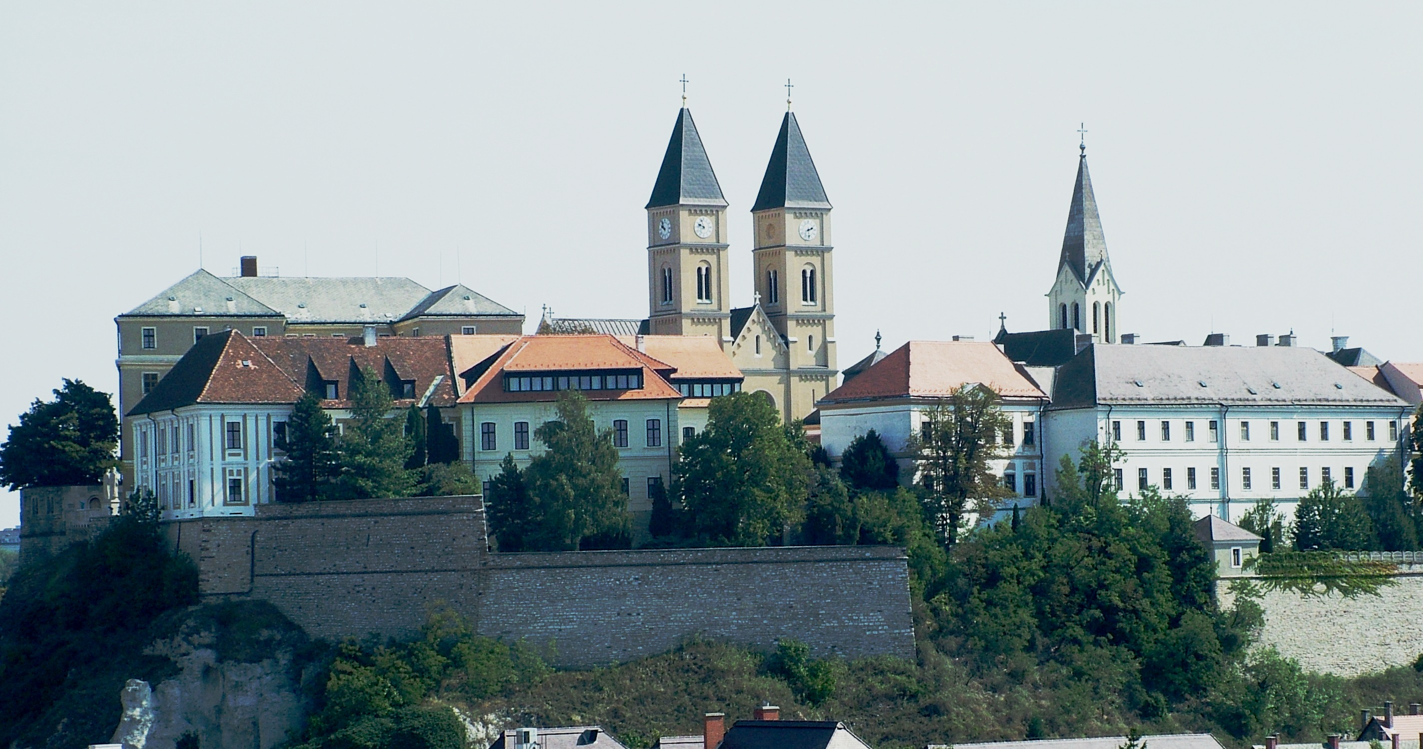 Veszprém (Veszprém county), the castle area with cathedral)